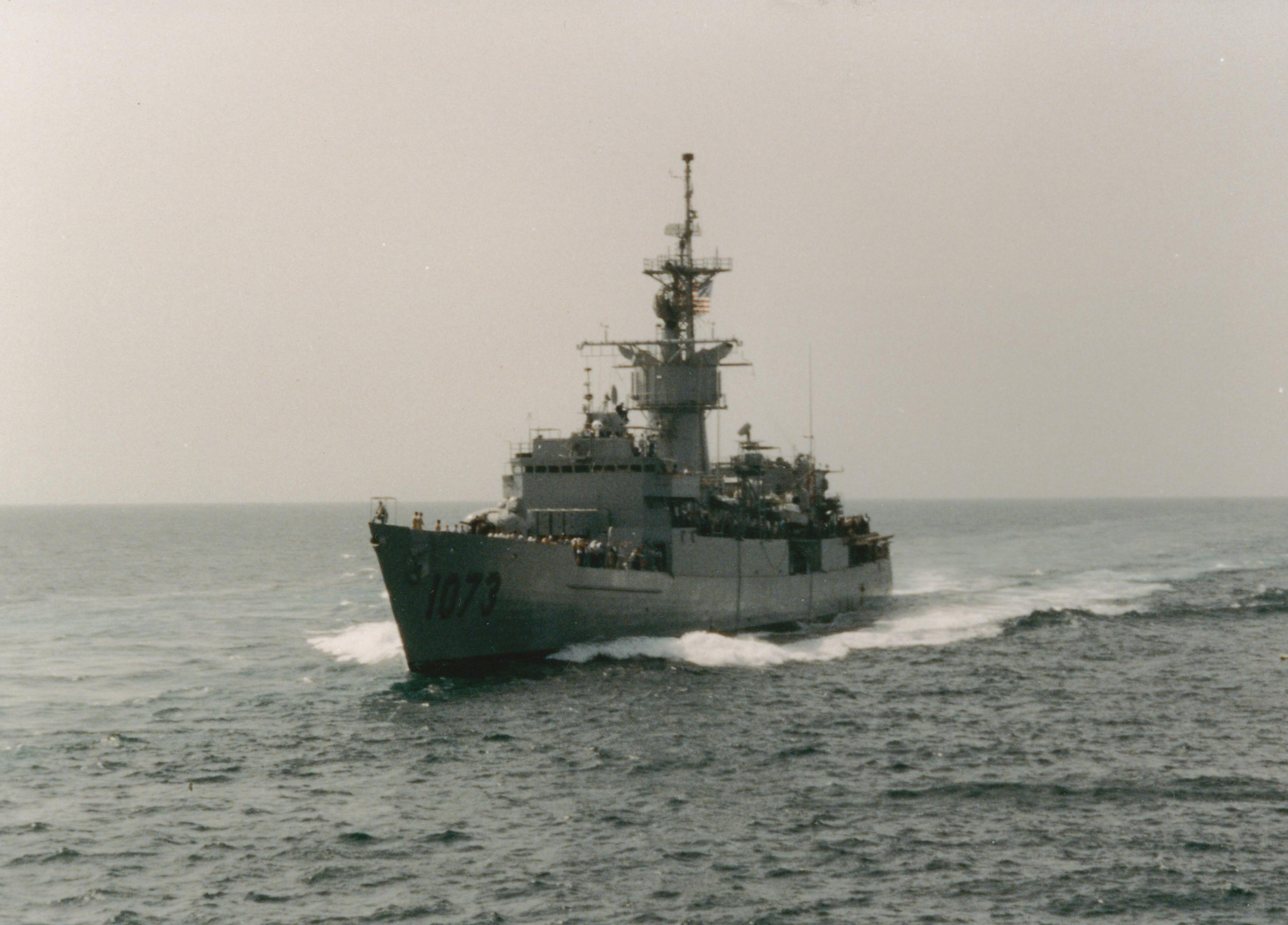 The U.S. Navy frigate USS Robert E. Peary (FF-1073) underway in the Persian Gulf in support of Operation Desert Storm, in 1991. It was taken from the starbord side of the guided missile cruiser USS Truxtun (CGN-35).